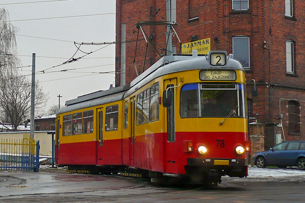 Tram at depot on in new institutional painting station street number 78 Duewag ZGT6w.